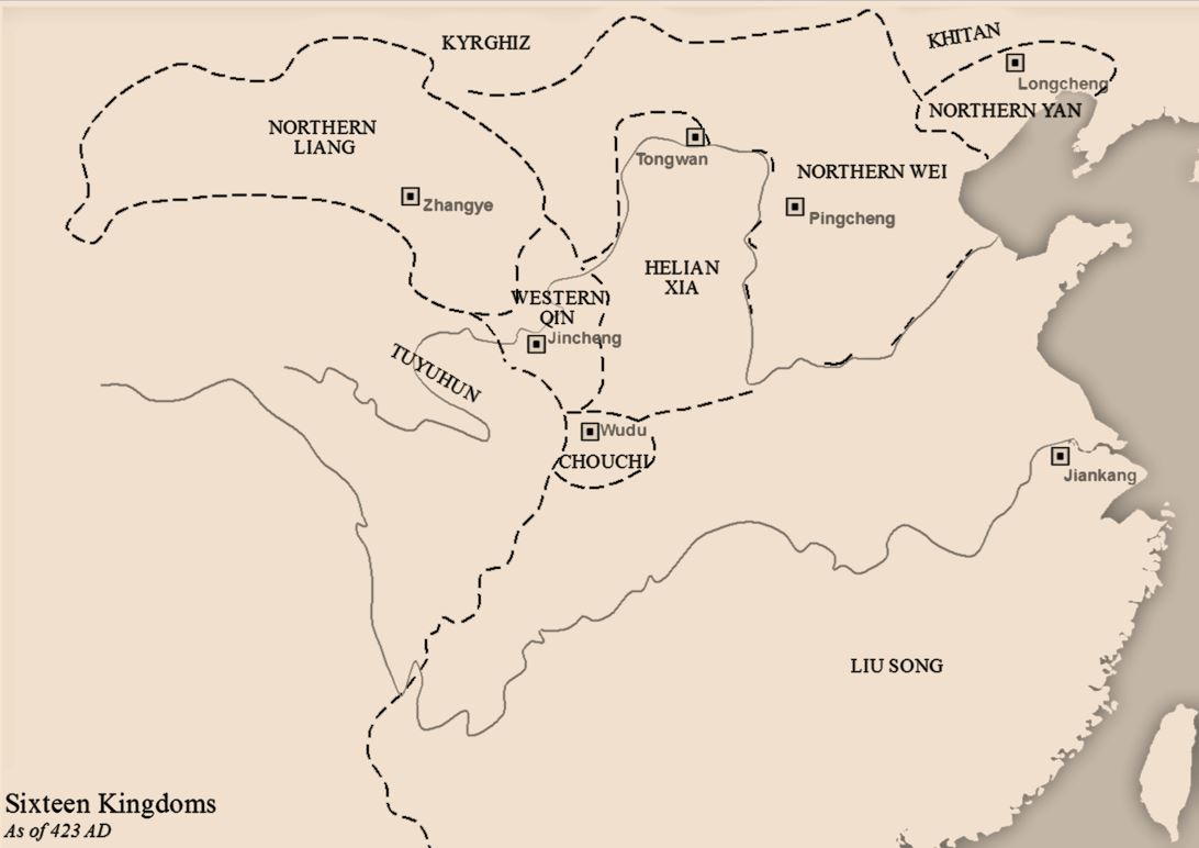 Map of Sixteen Kingdoms as of 423 AD